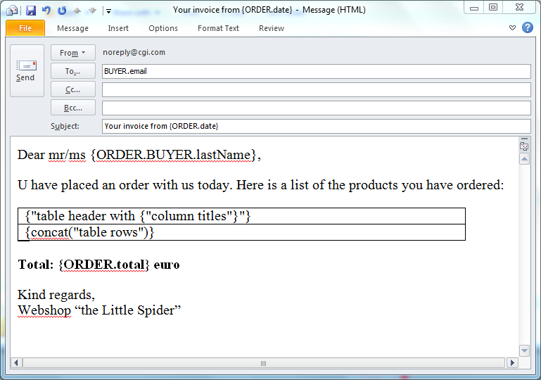 Example of a visual specification of a end result using SMART Requirements 2.0